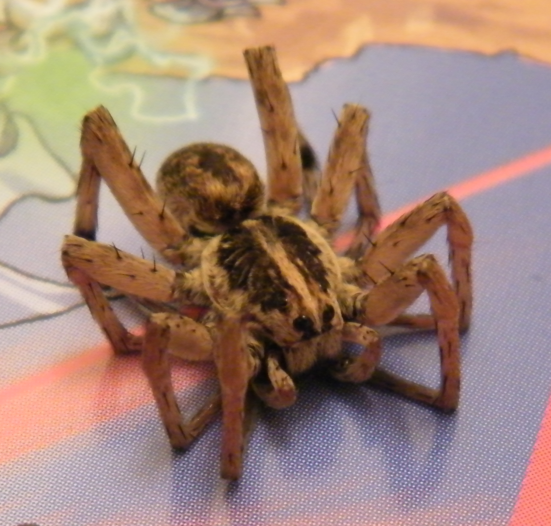 Dead Wolf Spider as seen within a home in Maricopa City, Pinal County, Arizona. Taken with a Fuji S2000HD with super-macro setting under standard room lighting